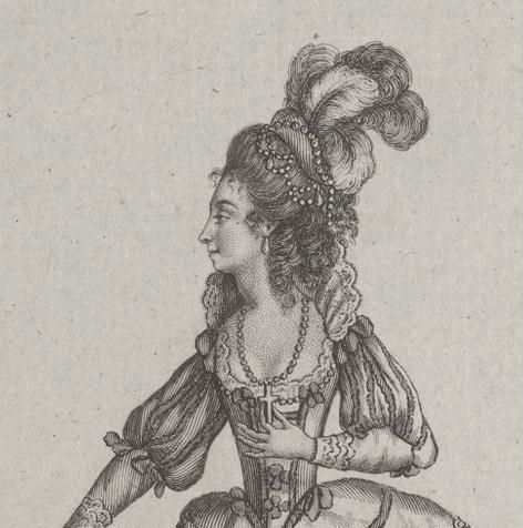 Cropped version of an engraving of actress Mary Bulkley (1747/8-1792) as Angelina in Love Makes a Man, 1776. She was born Mary Wilford; her two married names were Bulkley and Barrisford. She was known professionally as Mrs Bulkley. Her biography is here.